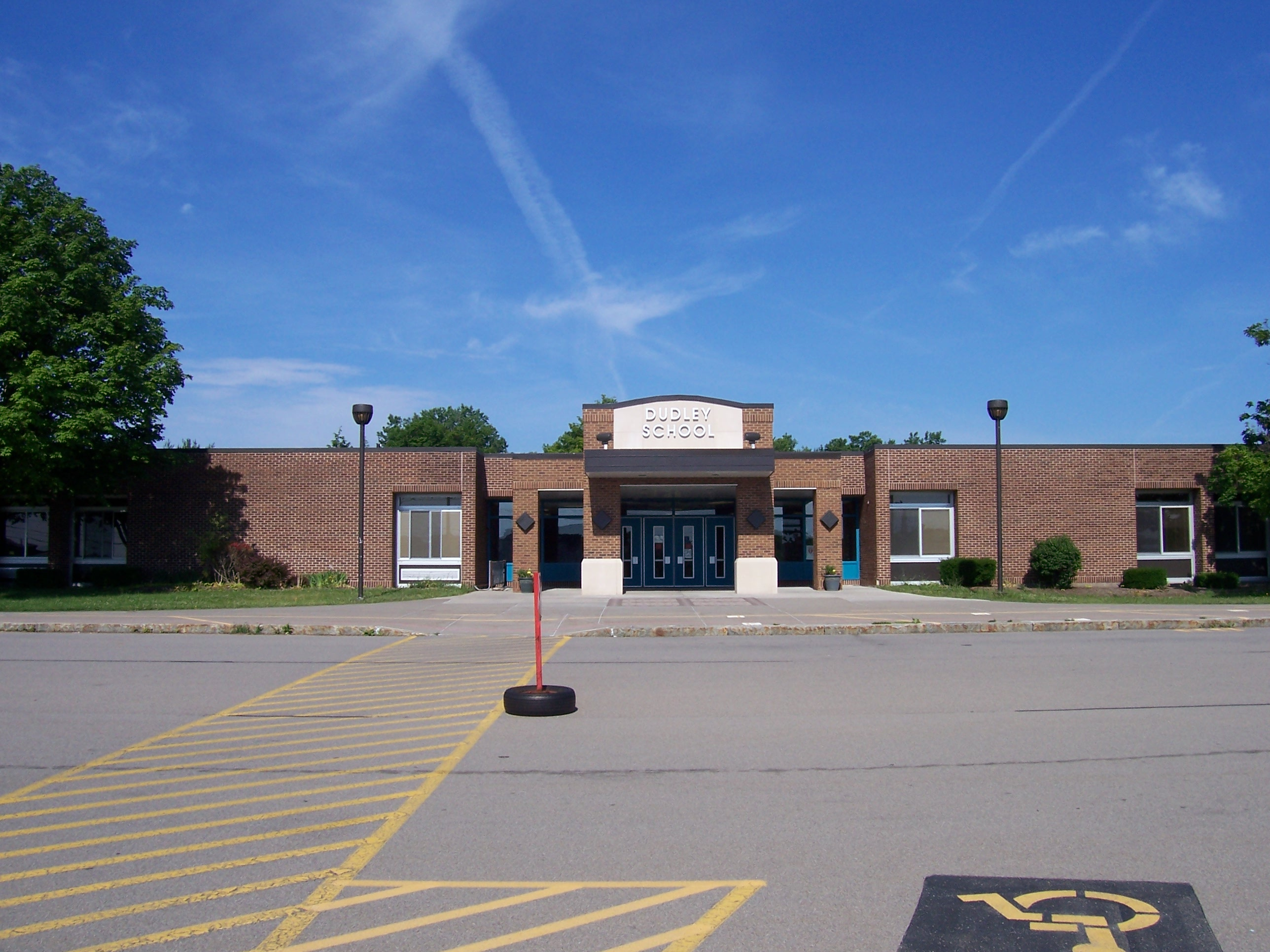 Dudley Elementary School in Perinton, New York